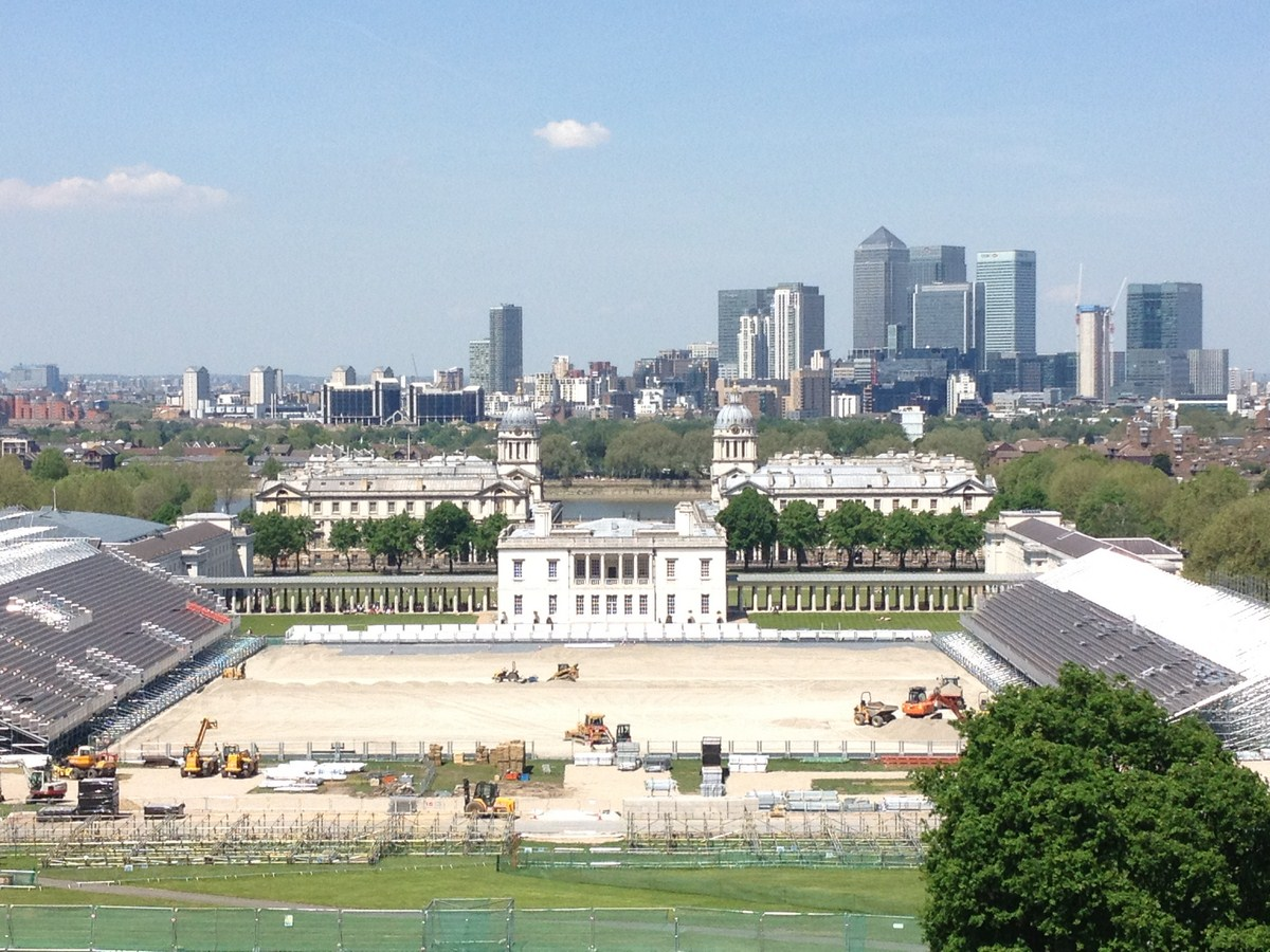 Preparations in Greenwich for Equestrian sports at the 2012 Summer Olympics (London 2012)